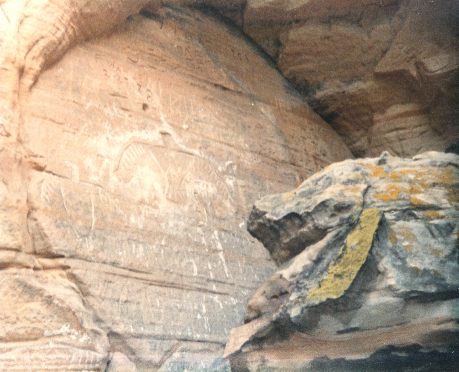 ThunderBird Rock Carved Petroglyph in West Central Wisconsin